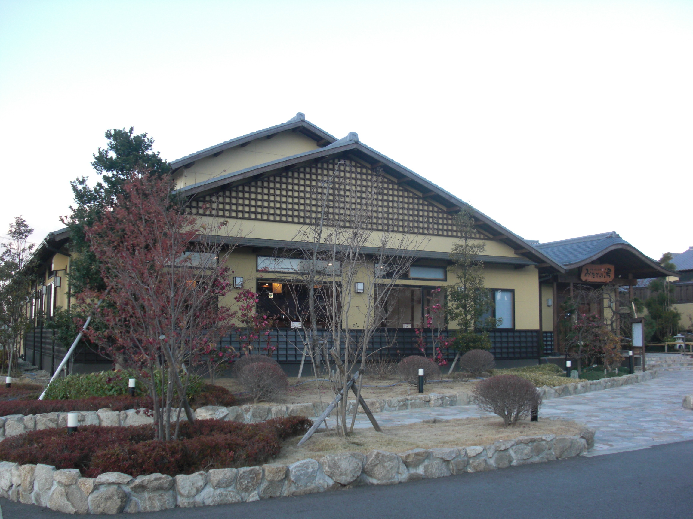 This is the Mitasu no Yu in Ise, Mie, Japan.